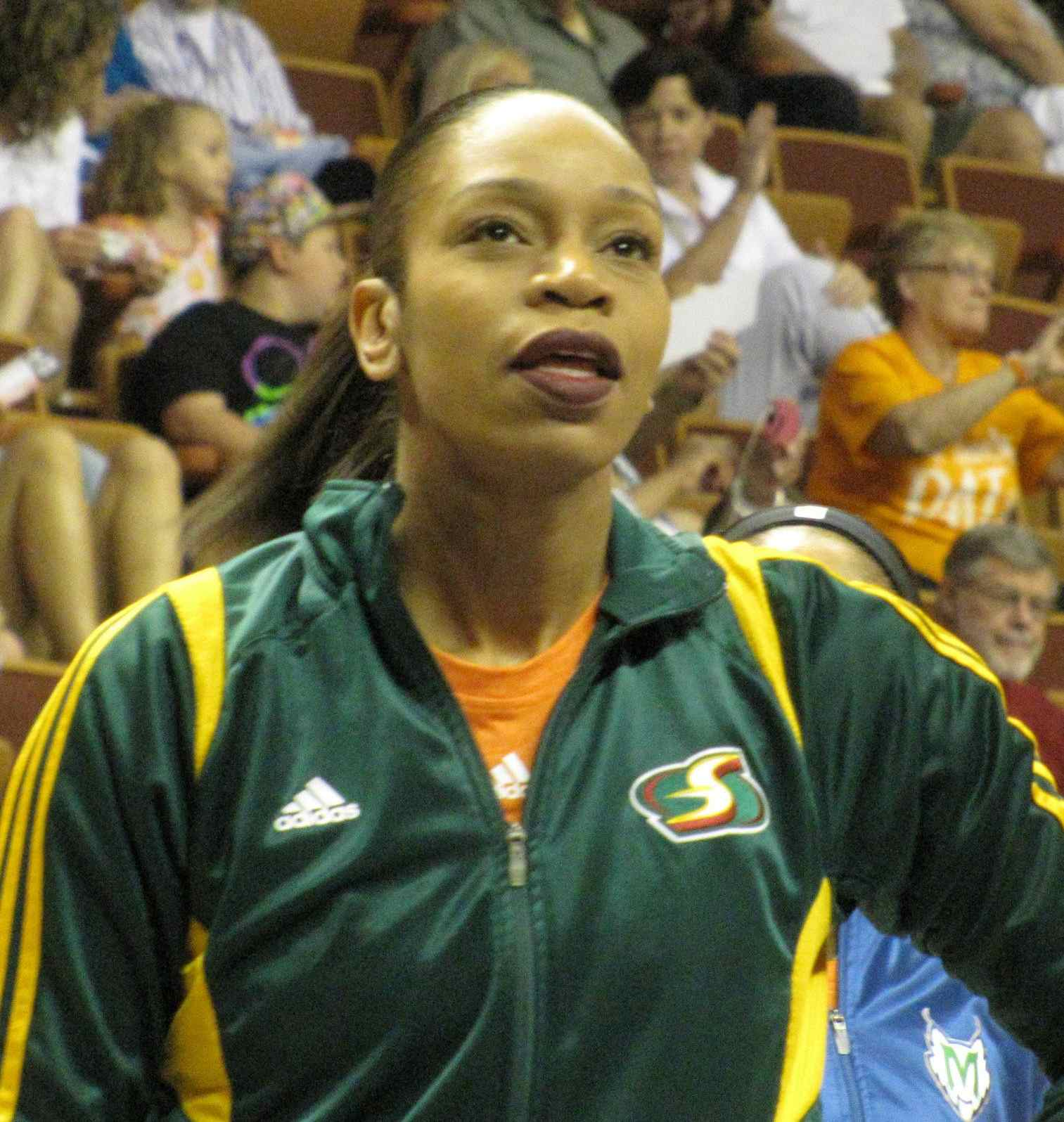 Tina Thompson at 2013 WNBA All-Star game at Mohegan Sun 27 July 2013